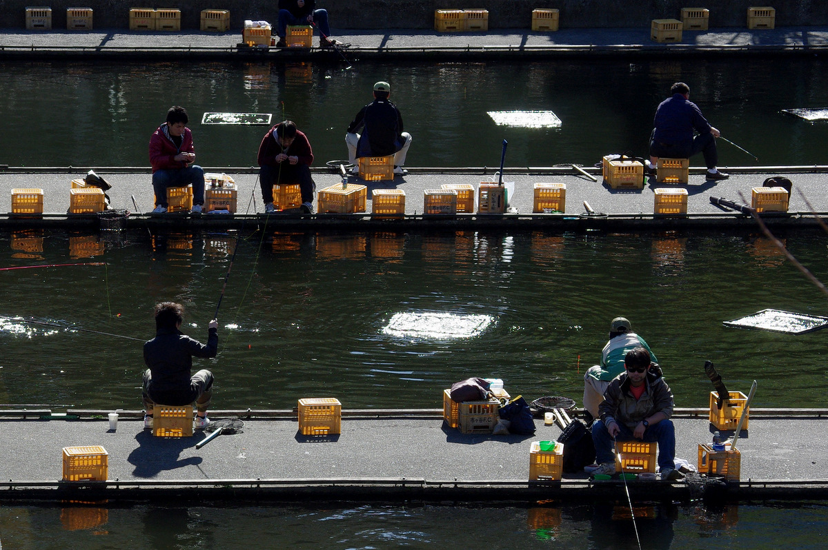 The fishing pond at Ichigaya, Tokyo, Japan.